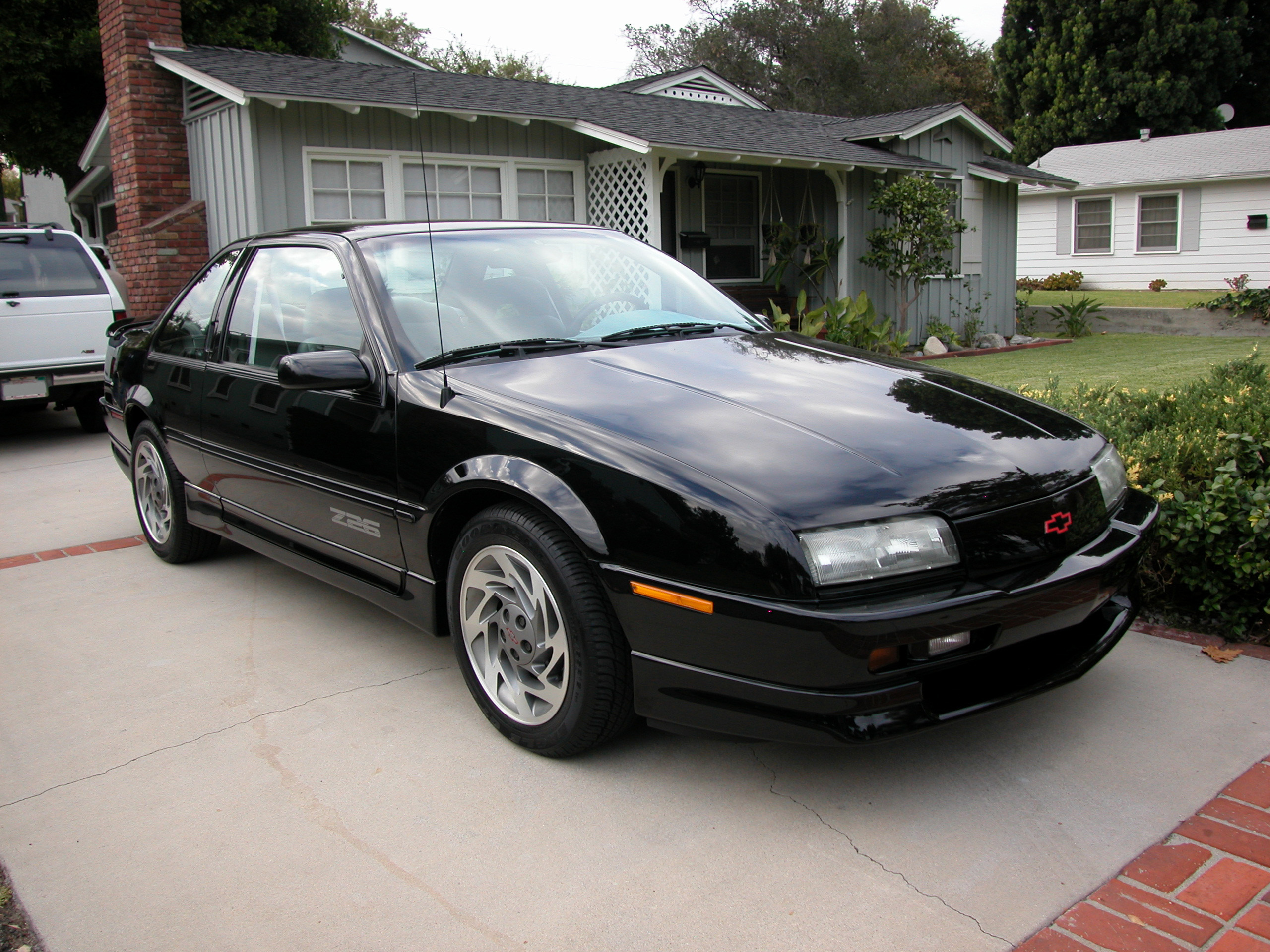 Side view of a 1990 Chevy Beretta Indy Pace Car Chevrolet Beretta INDY. Camera used was a Nikon Coolpix 5000.